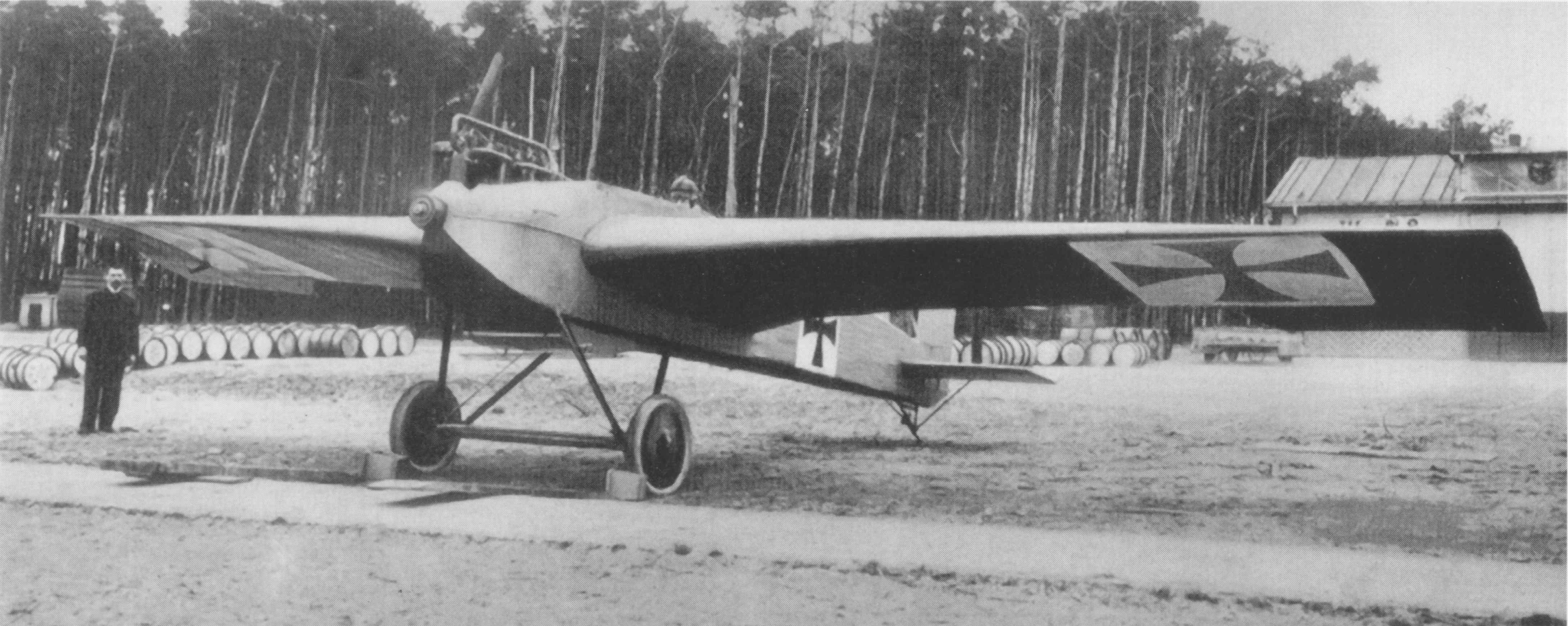 Junkers J 1 all metal "technology demonstrator" pioneer aircraft, at FEA 1, Döberitz, Germany in late 1915, undergoing flight preparations